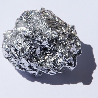 A ball of aluminium foil